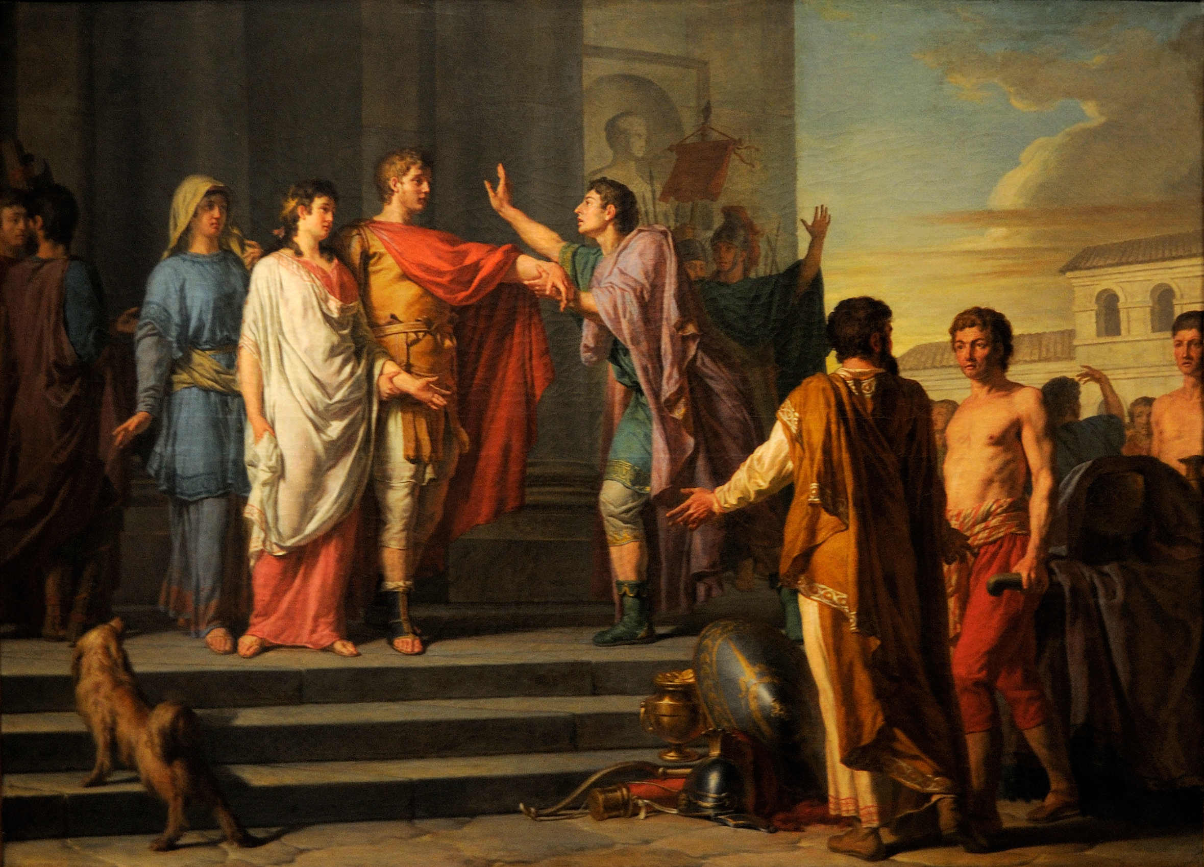 Picture taken in Strasbourg. Painting La Continence de Scipion (1788) by Nicolas-Guy Brenet in the Palais Rohan.